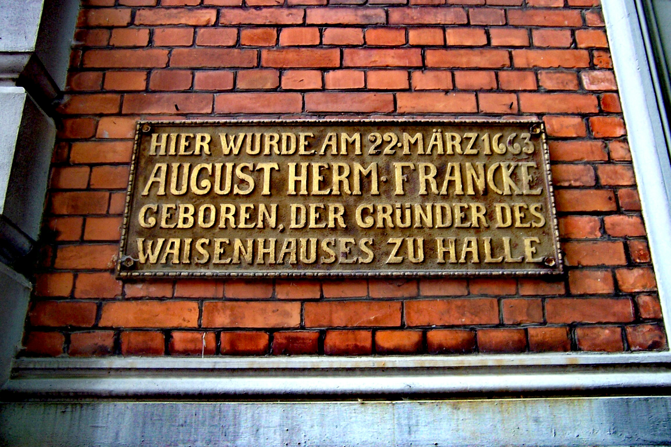 Sign commemorating the birthplace of August Hermann Francke in Lübeck